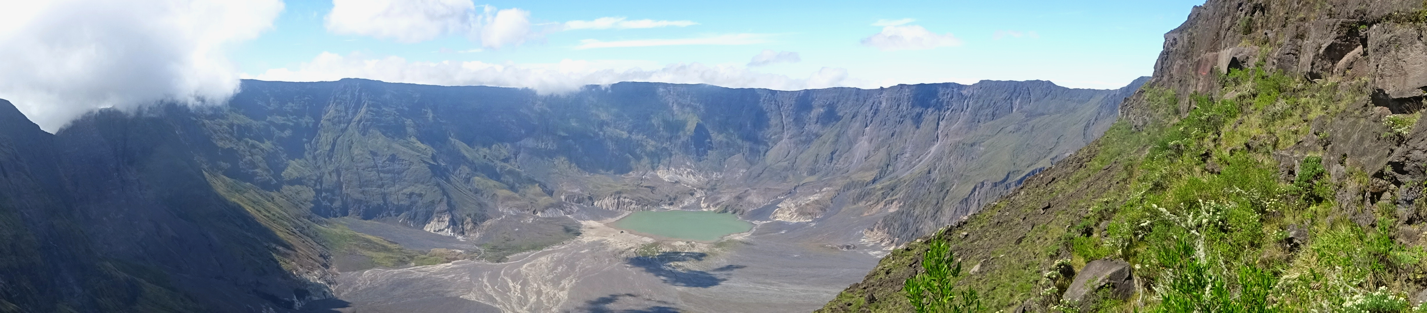 Panorama of the caldera of Mount Tambora, Sumbawa, Indonesia